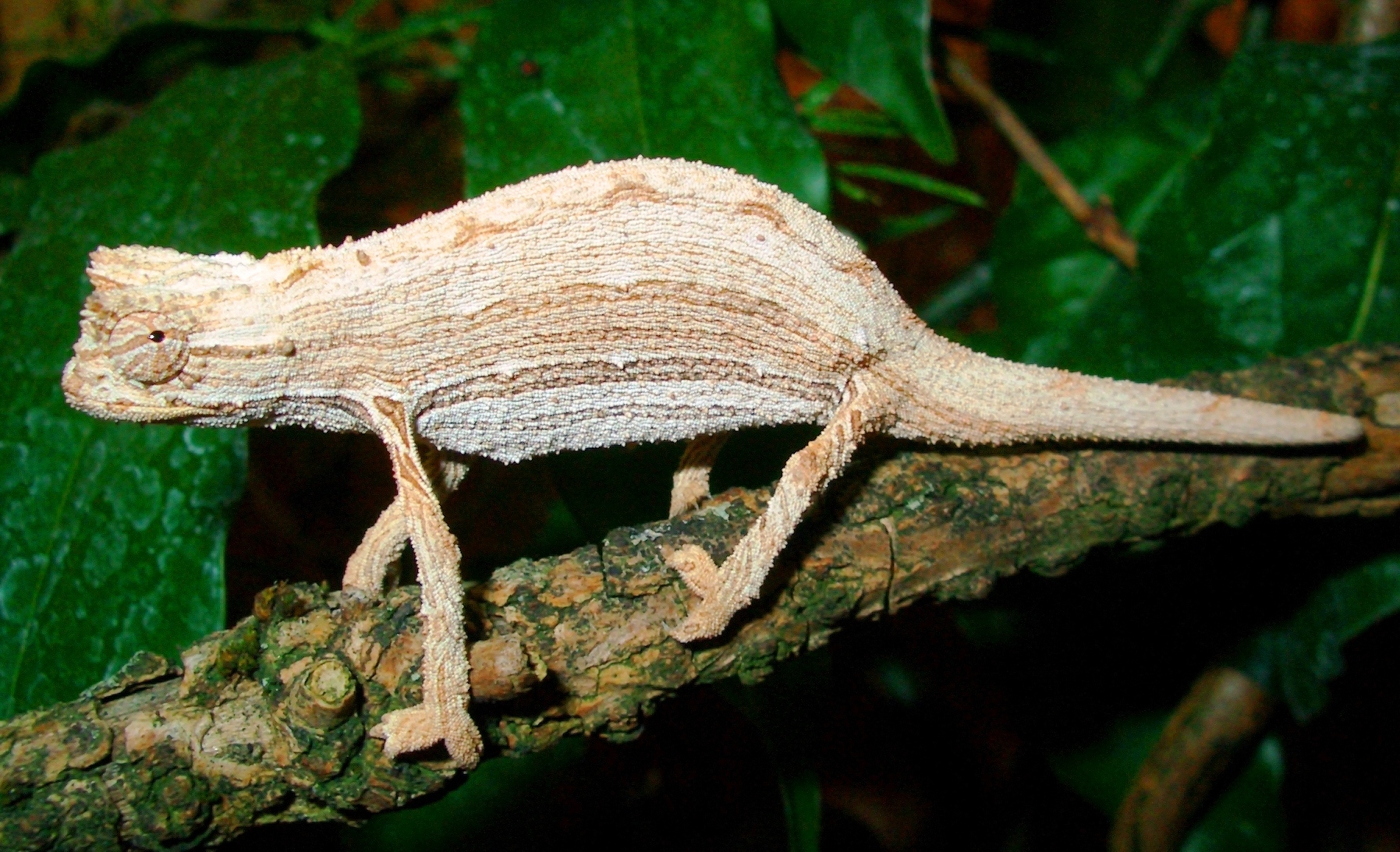 Kersten's Pygmy Chameleon, Rieppeleon kerstenii (Peters, 1868)